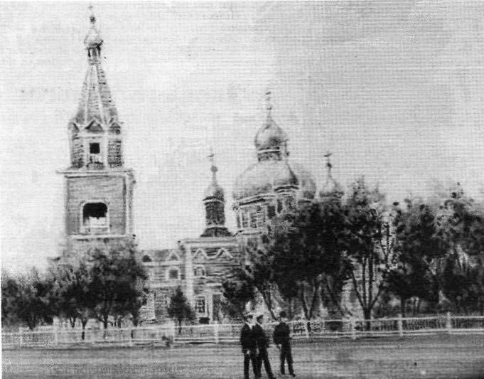 Photo of the church in the village of Chuevka (early 19th century)